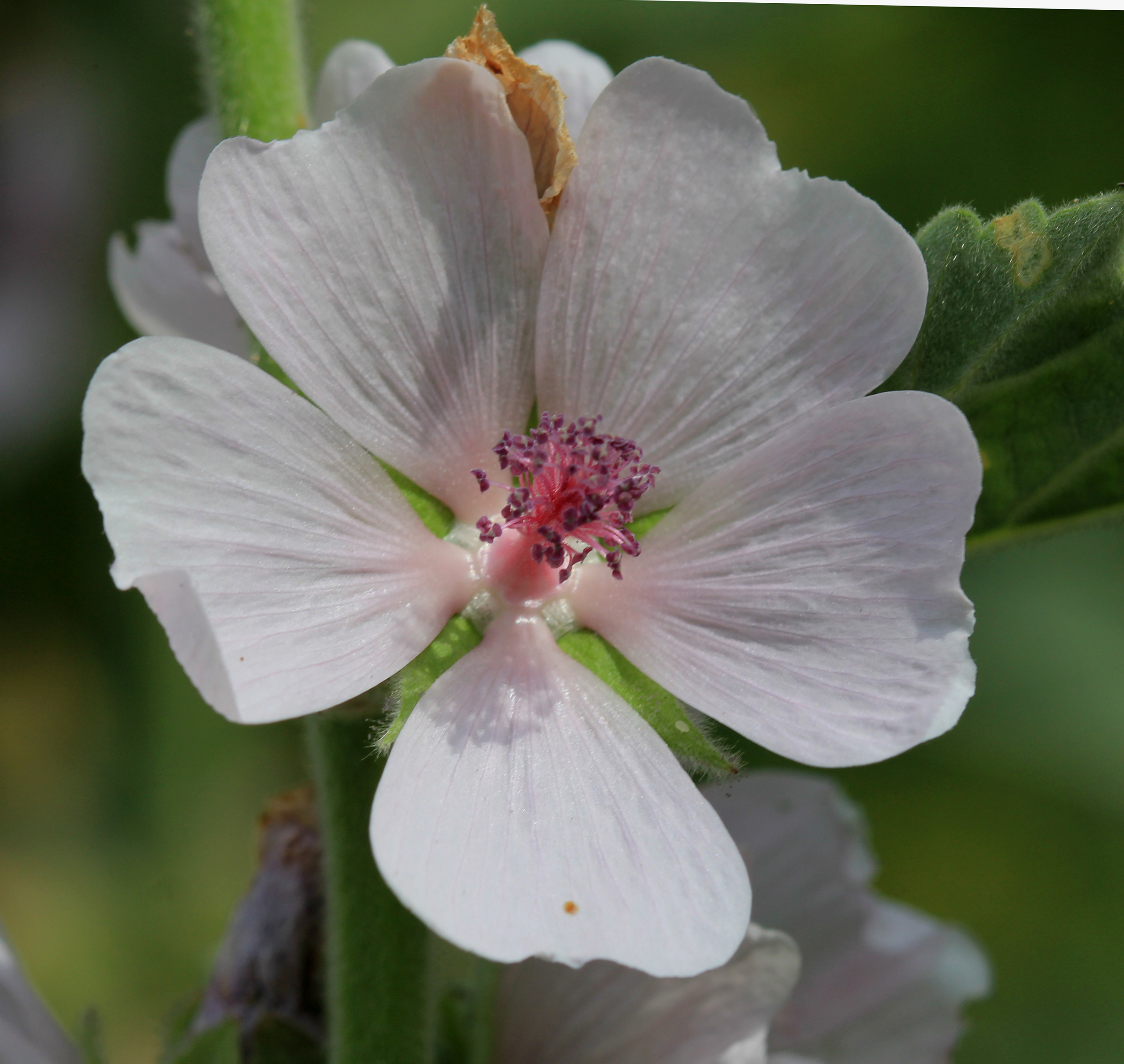 Flower of plant Althaea officinalis from Botanical Garden of Charles University in Prague, Czech Republic